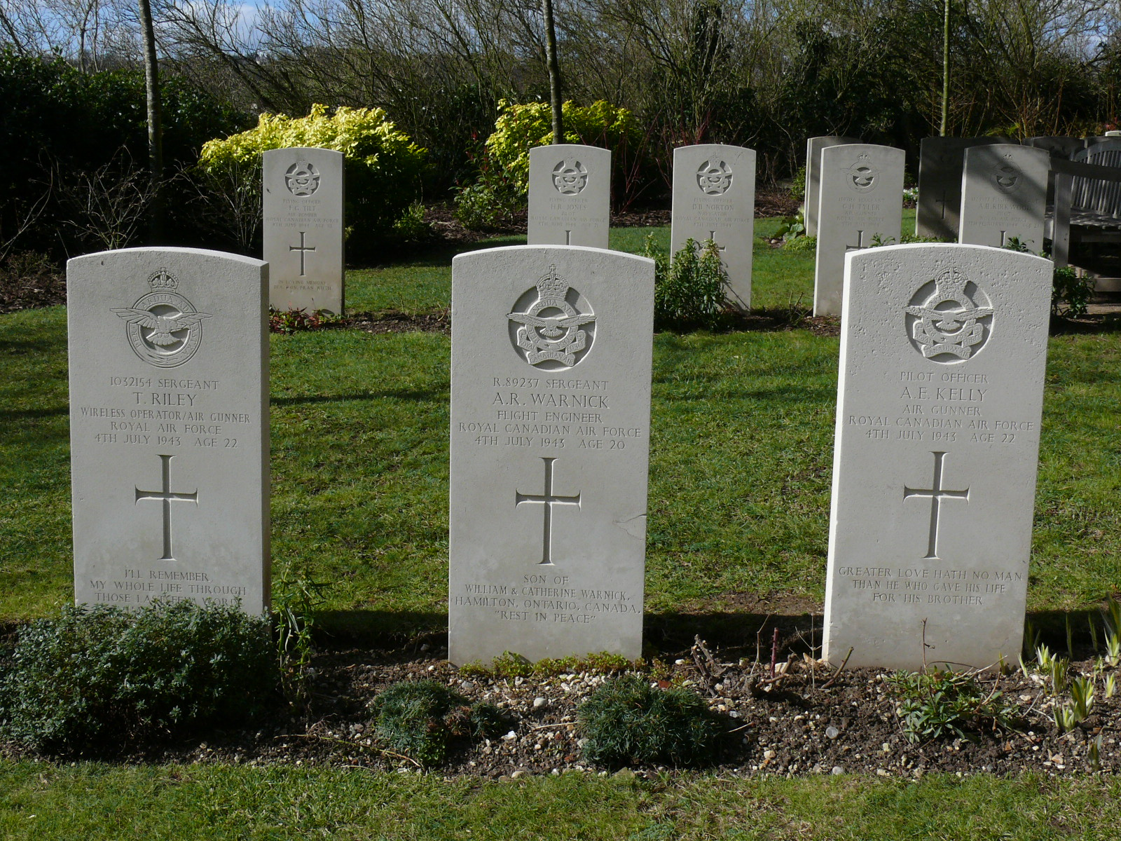 Cimetière militaire du Commonwealth devant l'église Saint-Denis de Poix-de-Picardie (Somme, France) Tombes représentées : Seargent T. Riley, RAF, 4th july 1943, age 22 Seargent A.R. Warnick, RCAF, 4th july 1943, age 20 Pilot officer A. E. Kelly, RCAF, 4th july 1943, age 22 Pilot Officer F. G. Tilt, RCAF, June 1944, age 21 Flying officer D. B. Norton, RCAF, June 1944 Flying seargeant G. H. Tyler, RAF, 5th june 1944 Flying seargeant A.B. Kirkwood , RAF, February 1944